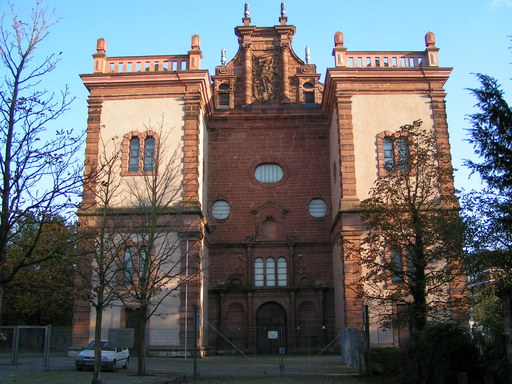 St. Maximin's Abbey in the German town Trier